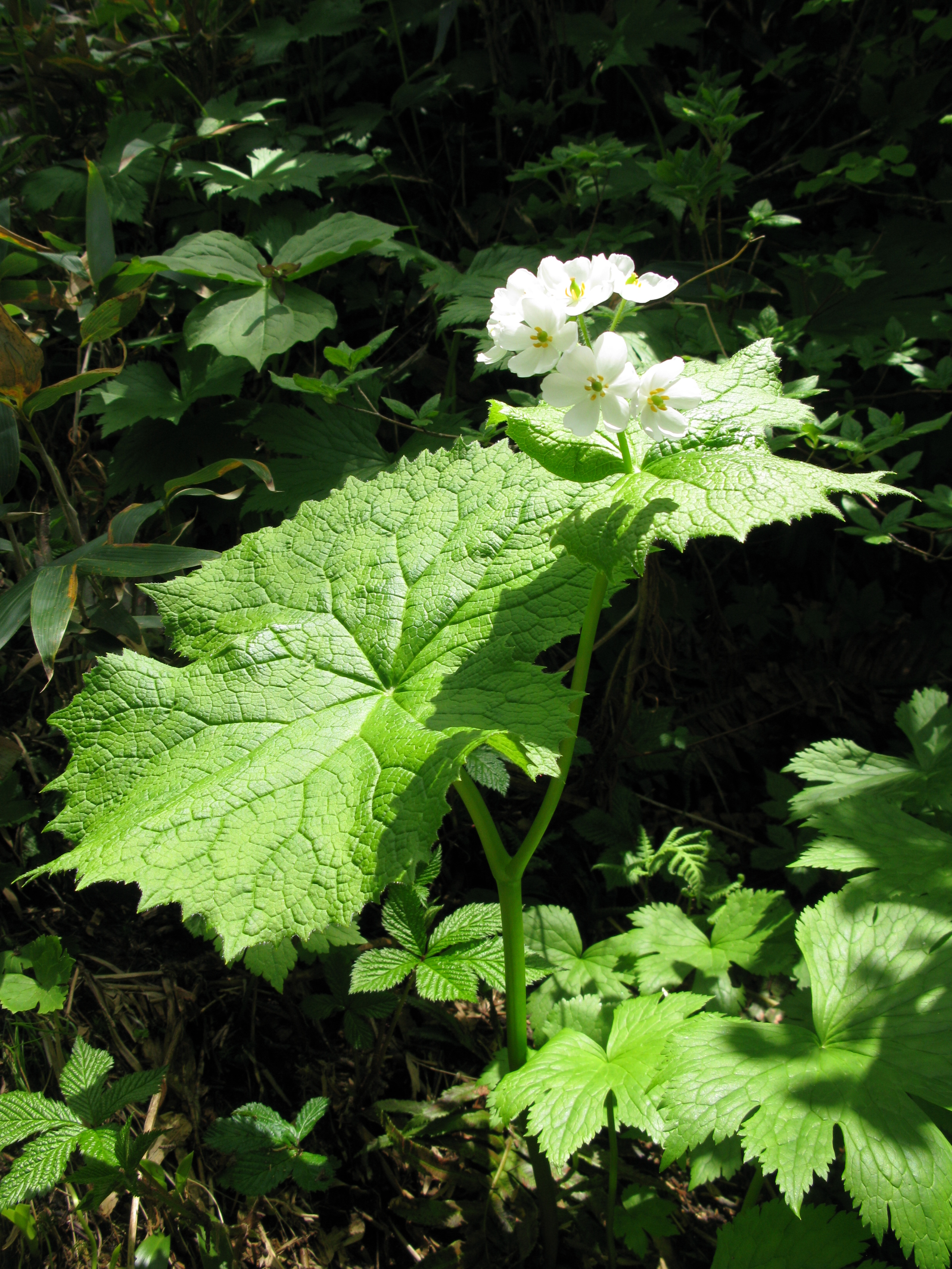 Diphylleia grayi, Mount Nishiazuma-yama, Yamagata pref., Japan